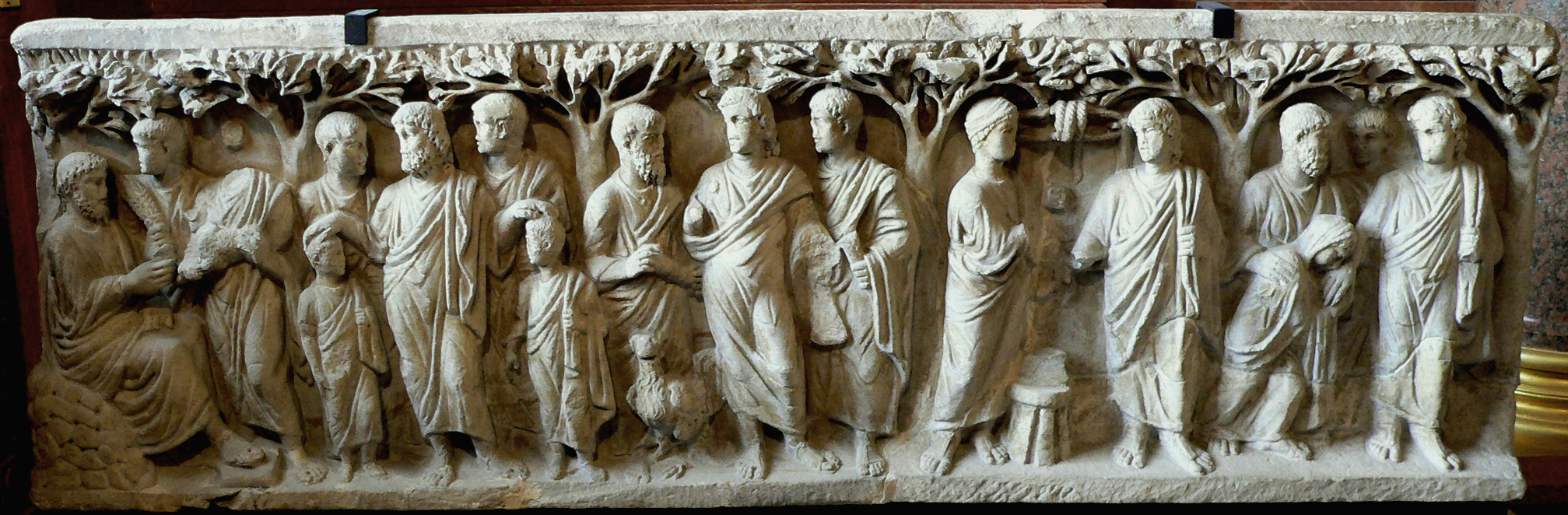 Side of a Christian sarcophagus with 5 scenes from the Ancient and the New Testament. Louvre Museum